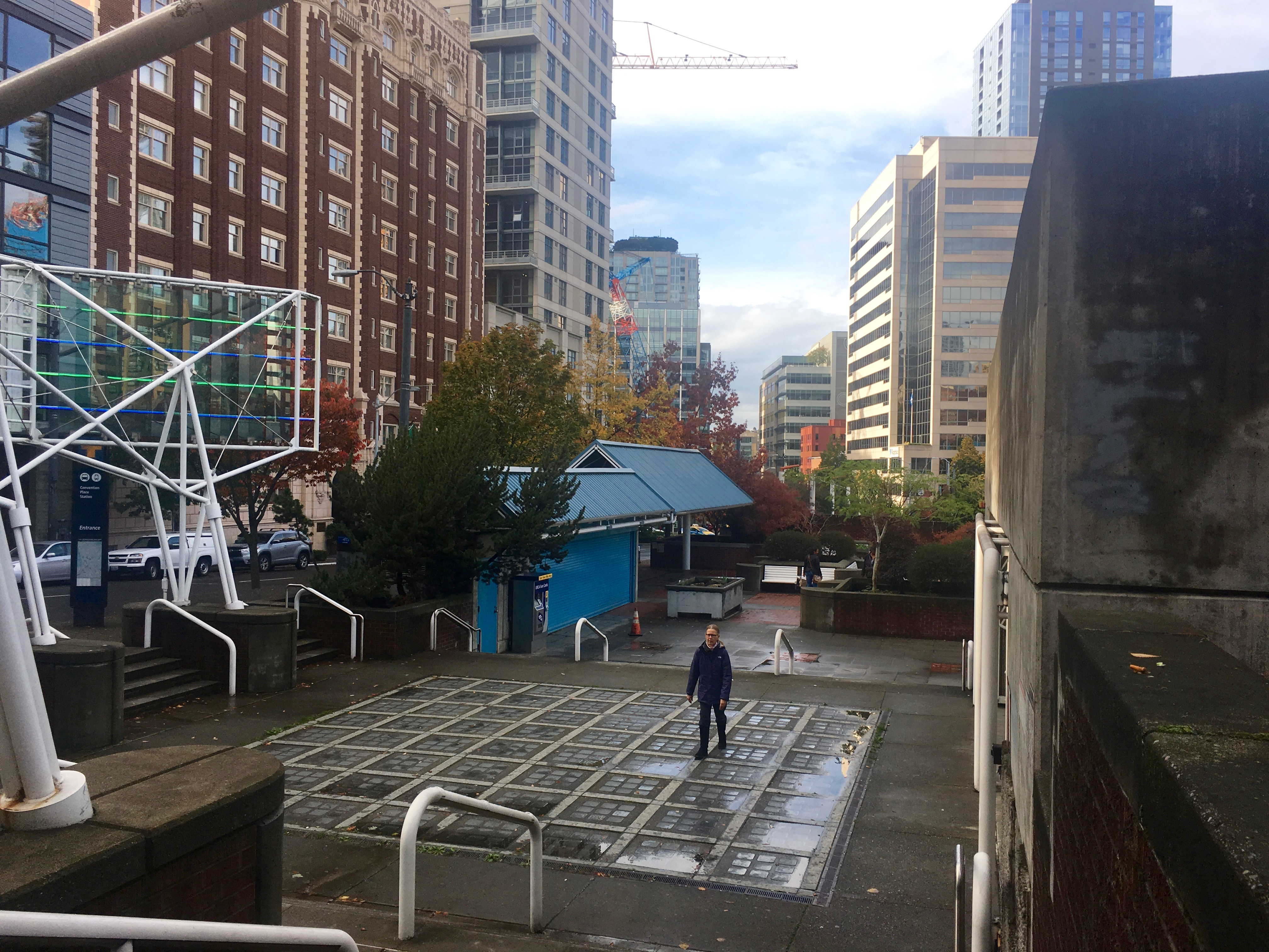 Plaza level of Convention Place station in Seattle, Washington. From this level passengers can access the various bus bays. There is also a single ORCA Card vending machine available.